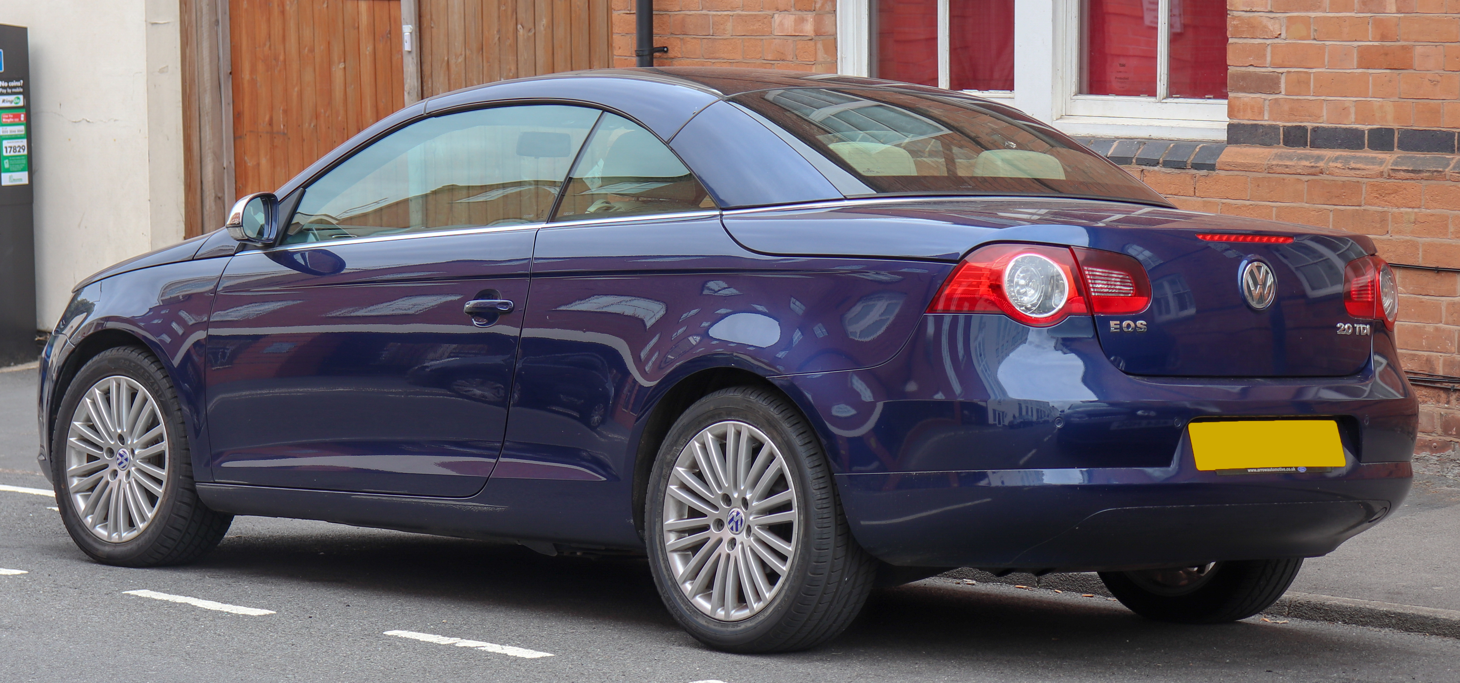 2006 Volkswagen EOS Sport TDi 2.0 Rear Taken in Leamington Spa